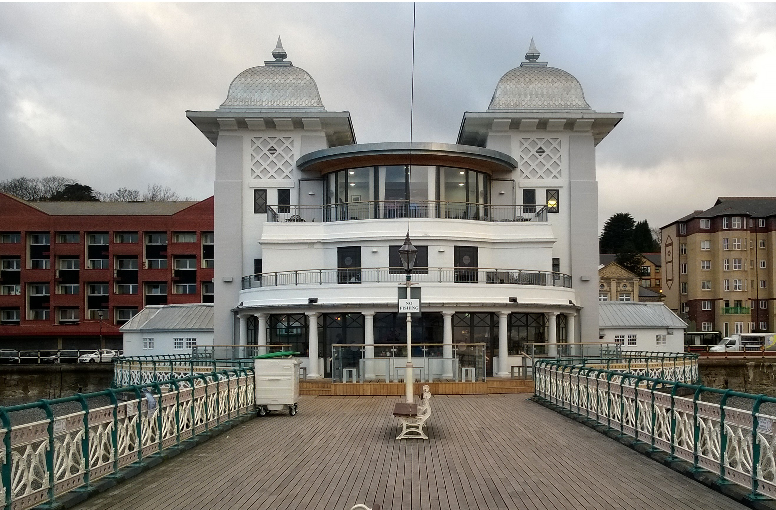 Rear of the pavilion (Penarth_Pier), Penarth, Wales